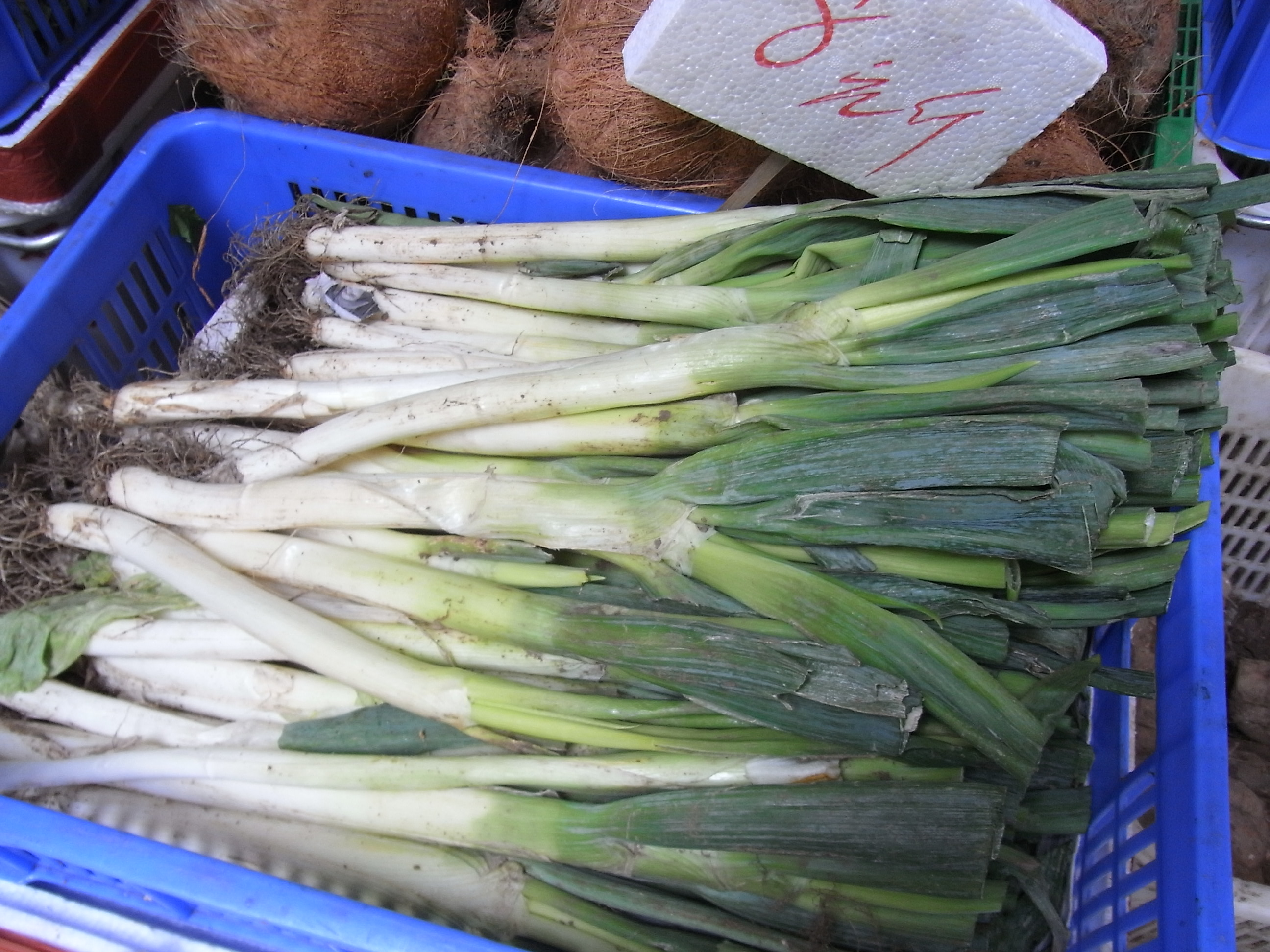 好上好膳康菓菜雜貨公司